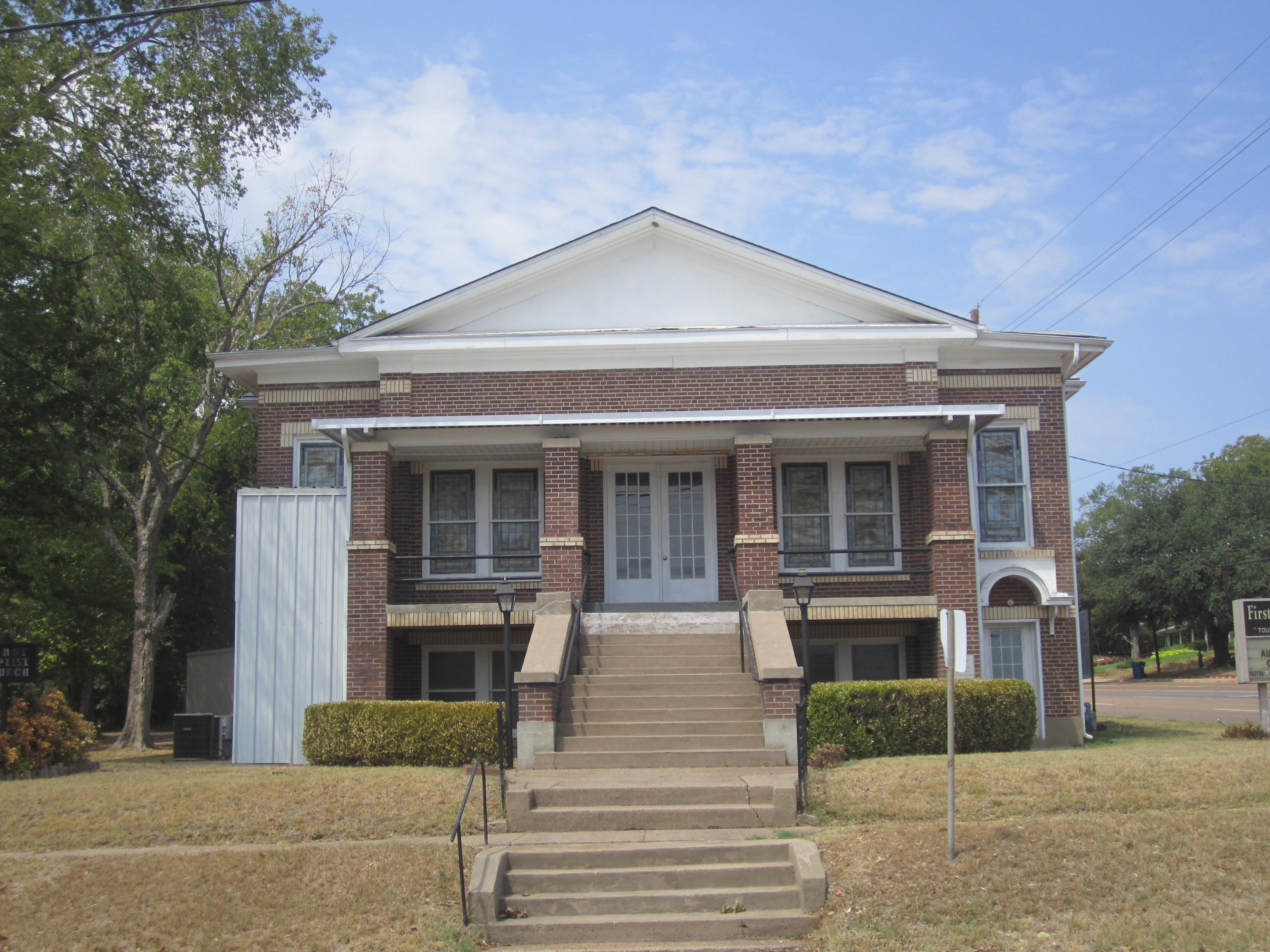 I took photo with Canon camera of First Baptist Church in Big Sandy, TX.